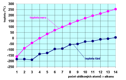 Melting points (in blue) and boiling points (in pink) of the first fourteen alkanes (temperatures in °C, number of carbon atoms along the horizontal axis) with Czech description.